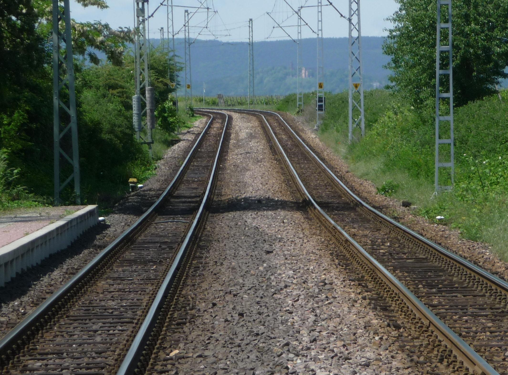 Ellerstadt, Germany